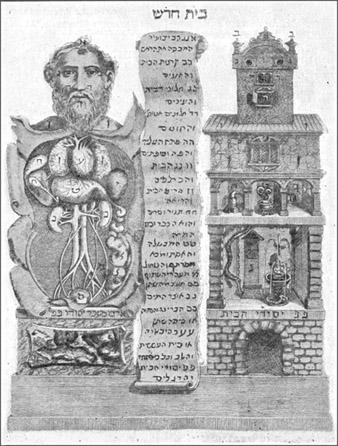 Tobias Cohn, from the book of Tobias Cohn Ma'aseh Toviyyah published in 1707.